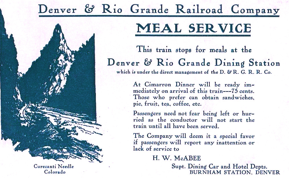 Postcard informing passengers of a Denver and Rio Grande train that the train would stop in Cimarron, Colorado (between Montrose and Salida) for dinner and that it made regular stops for meals at facilities owned by the railroad.